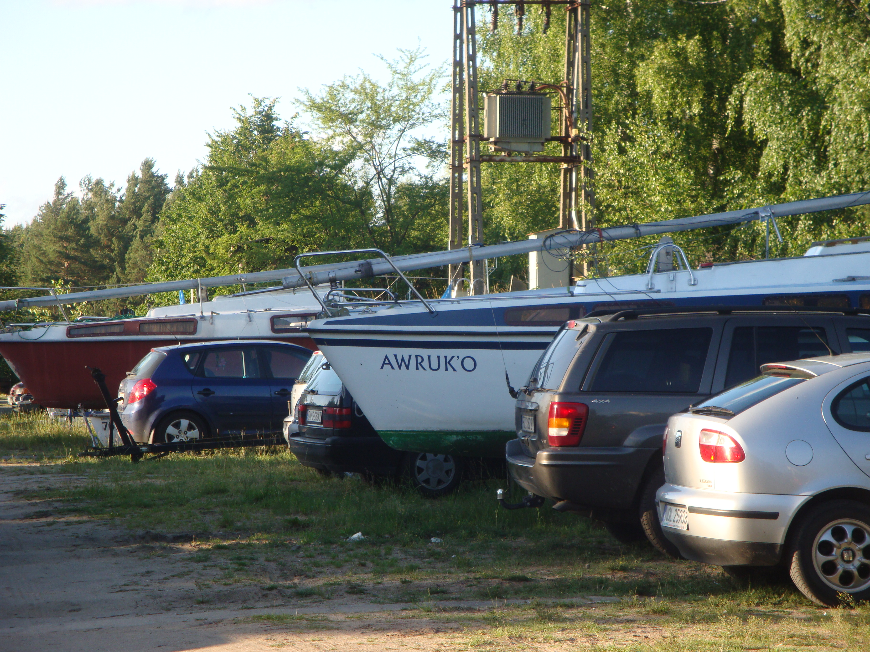 Sailing yacht Awruk'o in Wdzydze, Poland.